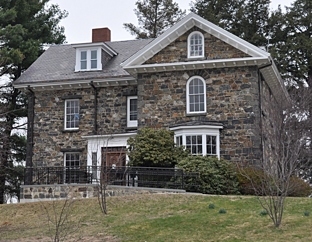 A photograph of the historic John Bottume House in Stoneham, Massachusetts, which serves as the Spot Pond Visitor's Center.